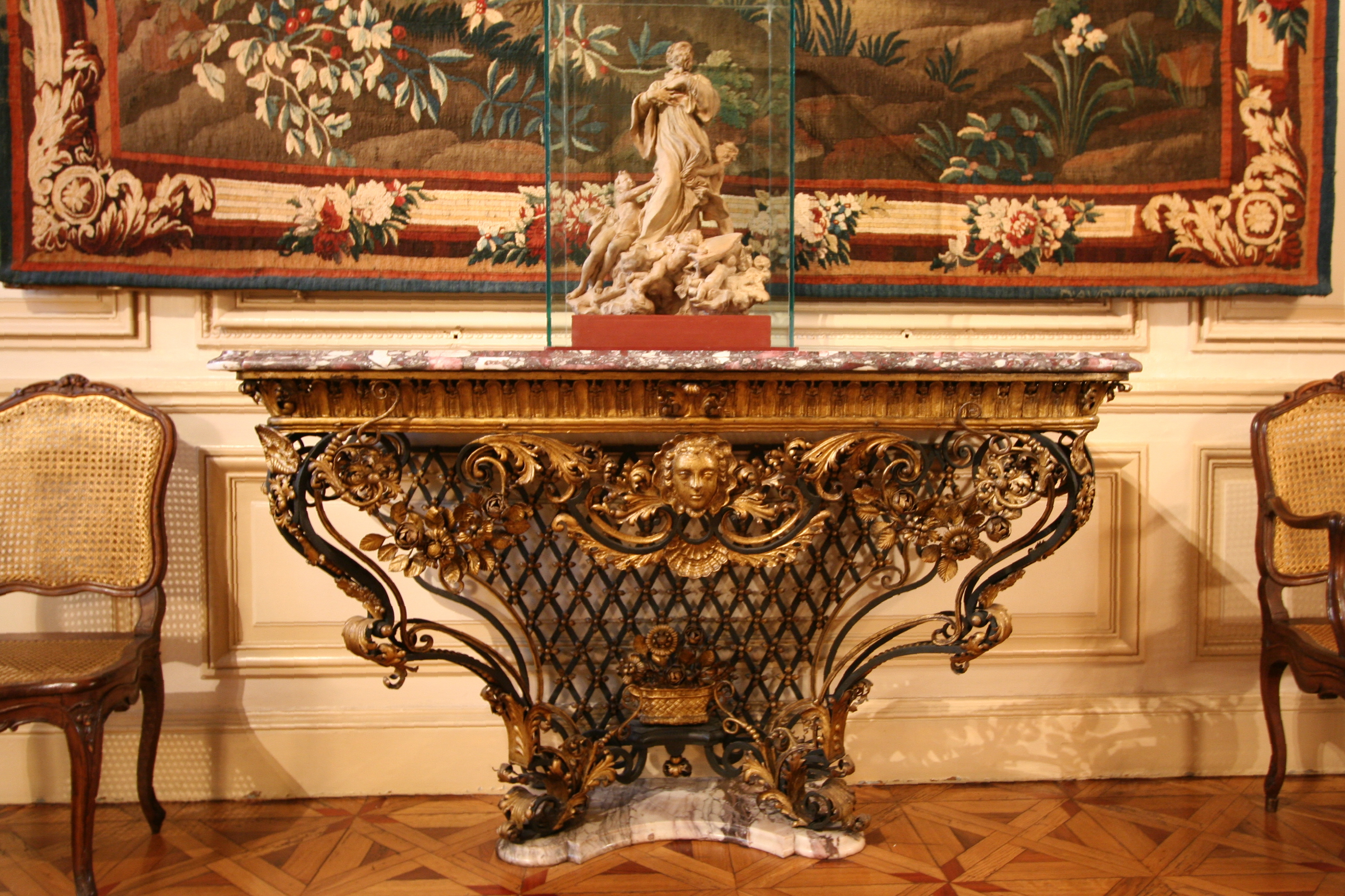 Console table, Régence, ca 1720, Musée Grobet-Labadié, Marseille, France.